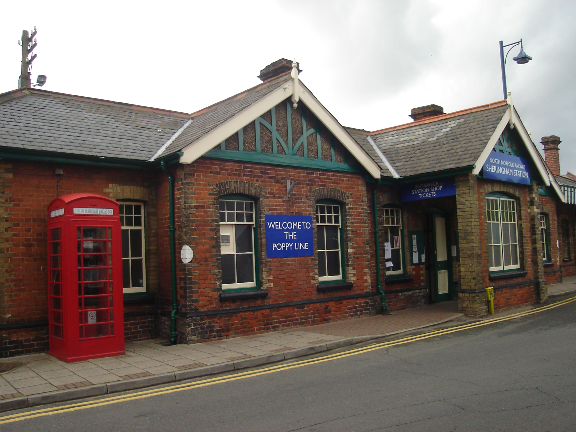 Picture of Sheringham railway station